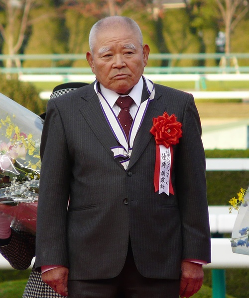 Hiroyoshi-Matsuda20111211